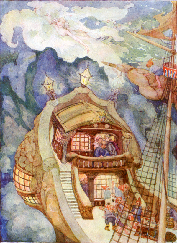 "The Little Mermaid" She dreamed of the prince